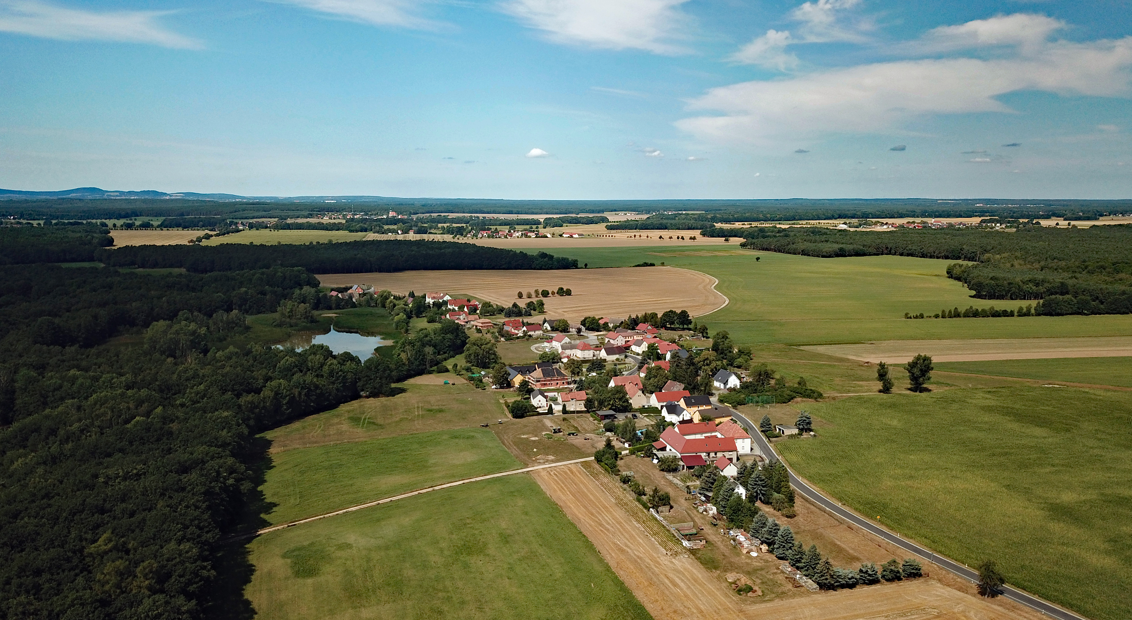 Caßlau (Neschwitz, Saxony, Germany) Hornjoserbsce: Powětrowy wobraz Koslowa